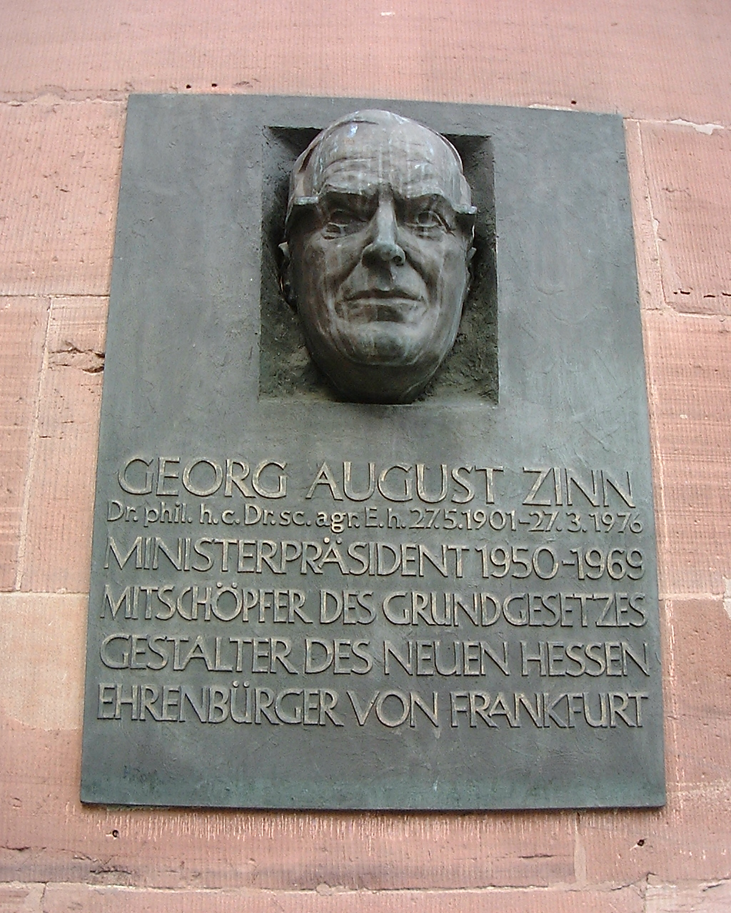 Picture taken on 9.1.2006 in Frankfurt/Main. Part of the wall of the Frankfurter Paulskirche